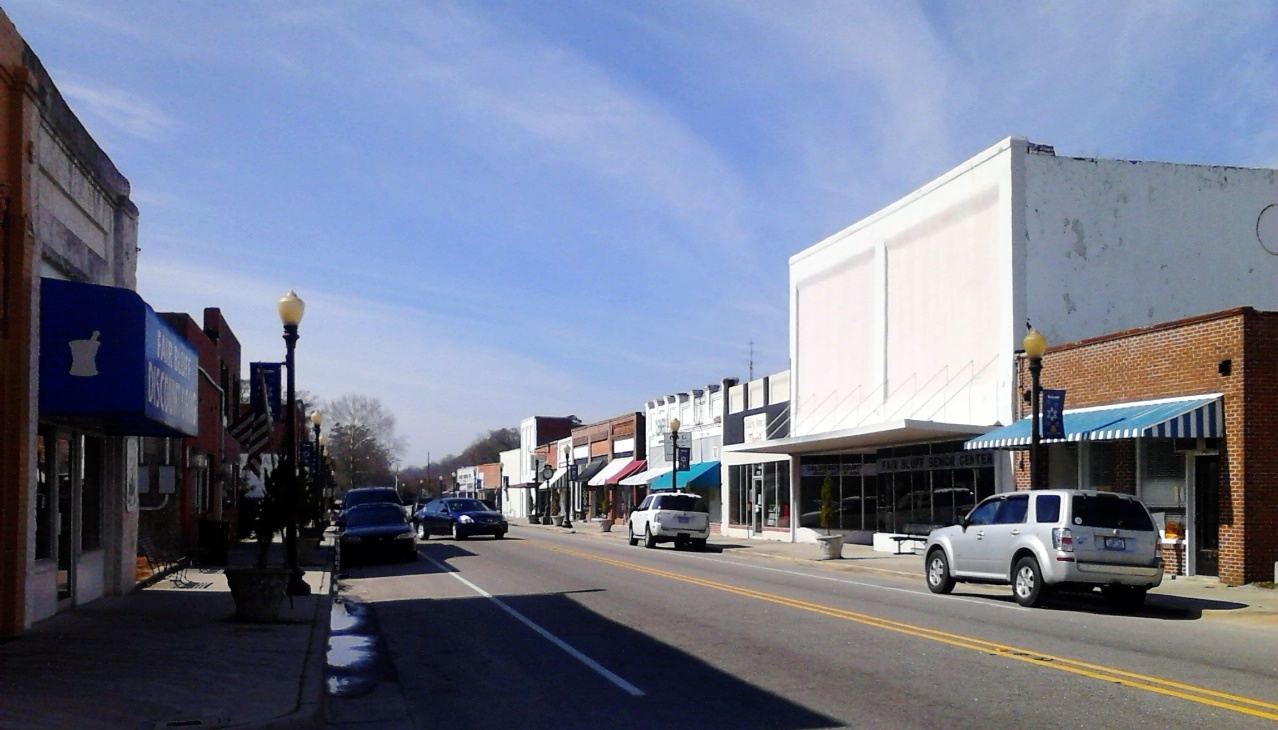 View of downtown Fair Bluff, North Carolina